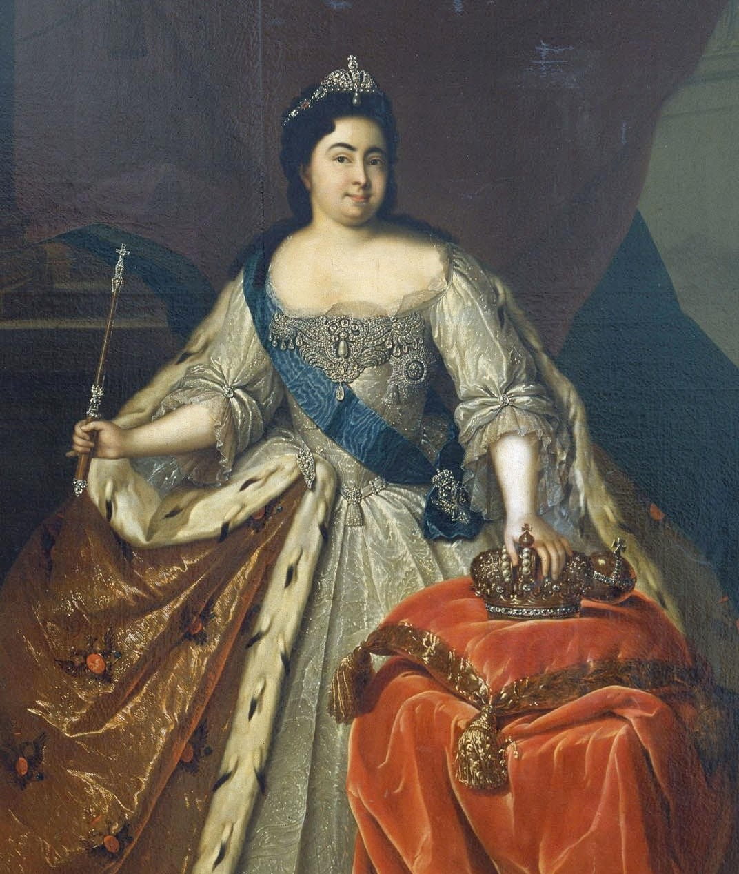 Empress Catherine I of Russia, by Heinrich Buchholz